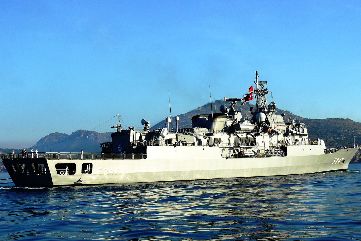 Turkish frigate Kemal Reis in Cartagena